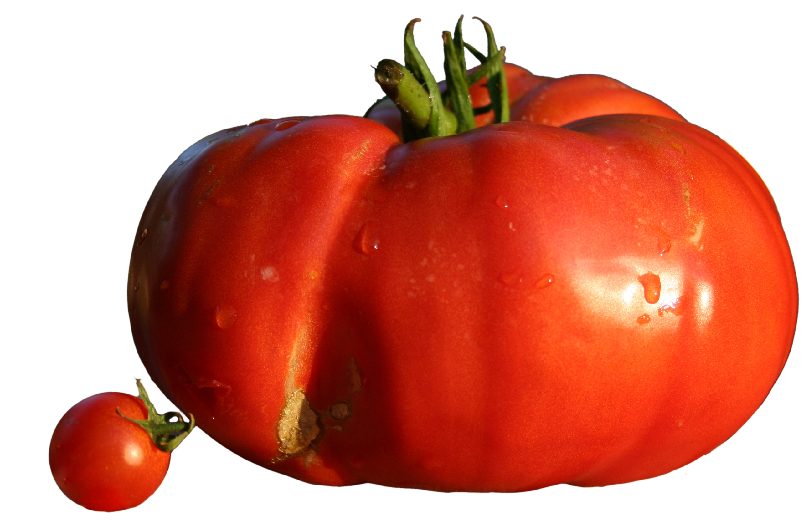 A cherry tomato and a beefsteak tomato, showing the diversity of size among tomato varieties.